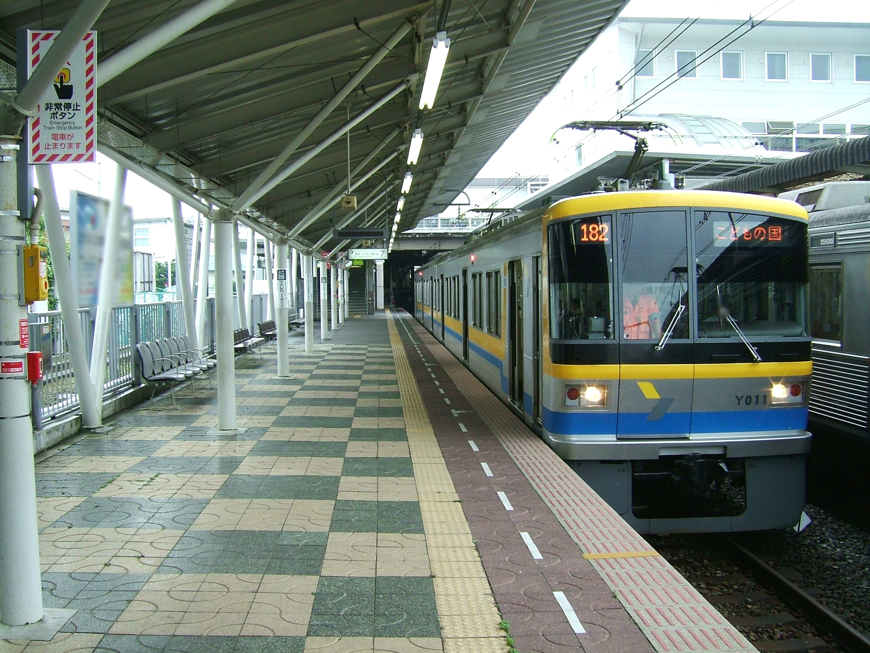 Nagatsuta Station platform (Kodomonokuni Line)